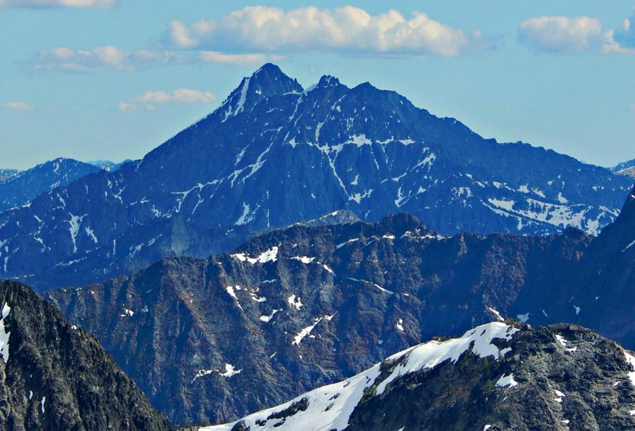 Reynolds Peak 8512' and north peak 8384' seen from Wallaby Peak